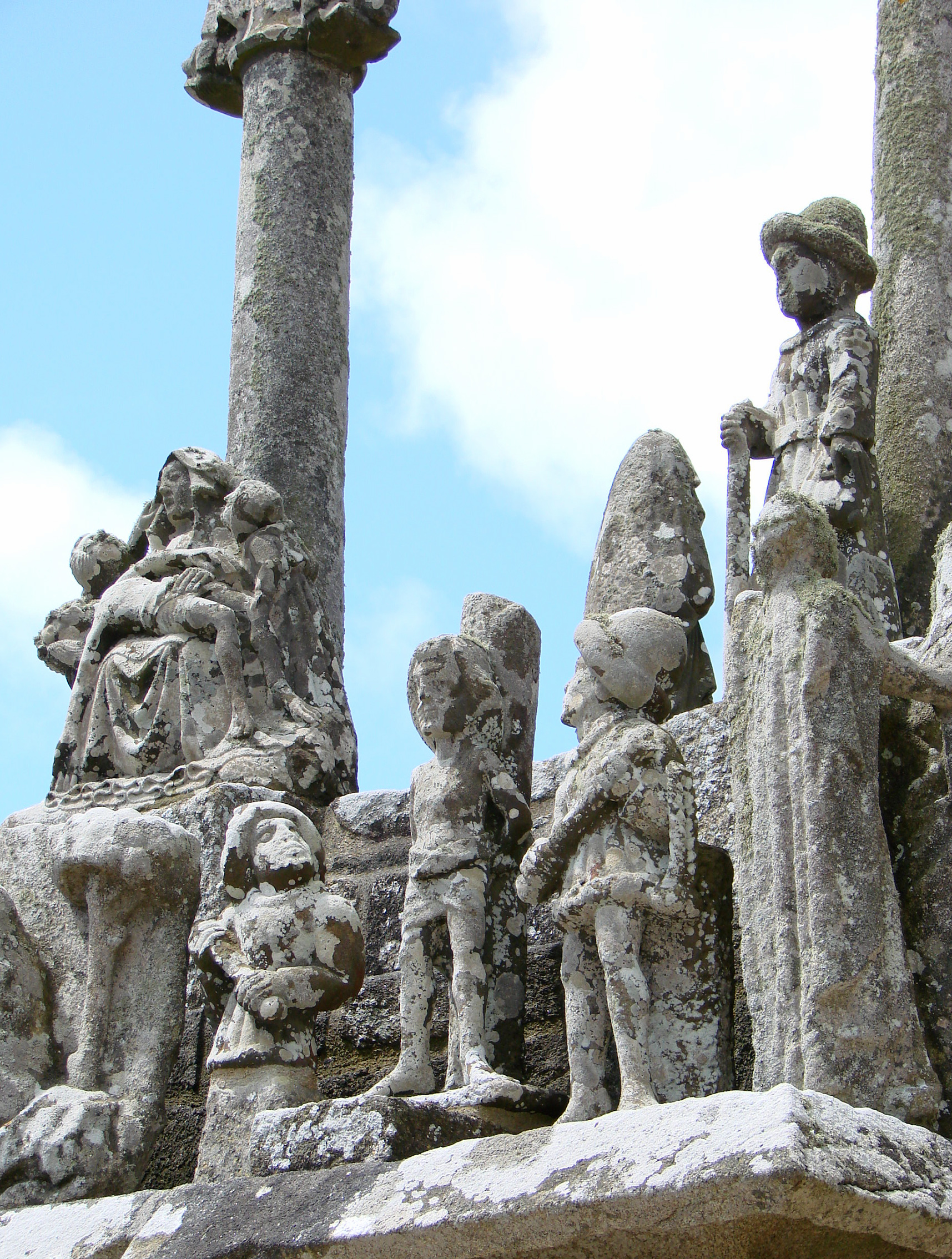 The calvaire of Notre-Dame de Tronoën. 15th century. Detail.